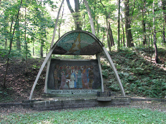 Calvary in Katowice Panewniki, Chapel of the Rosary - The third glorious mystery "Descent of the Holy Spirit". Completed in 1963.